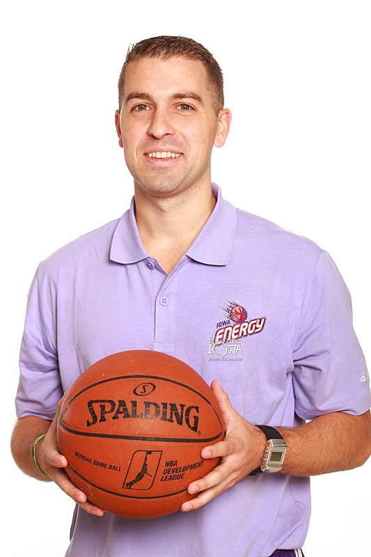 Norm De Silva - Assistant Coach 2011 Iowa Energy Media Day